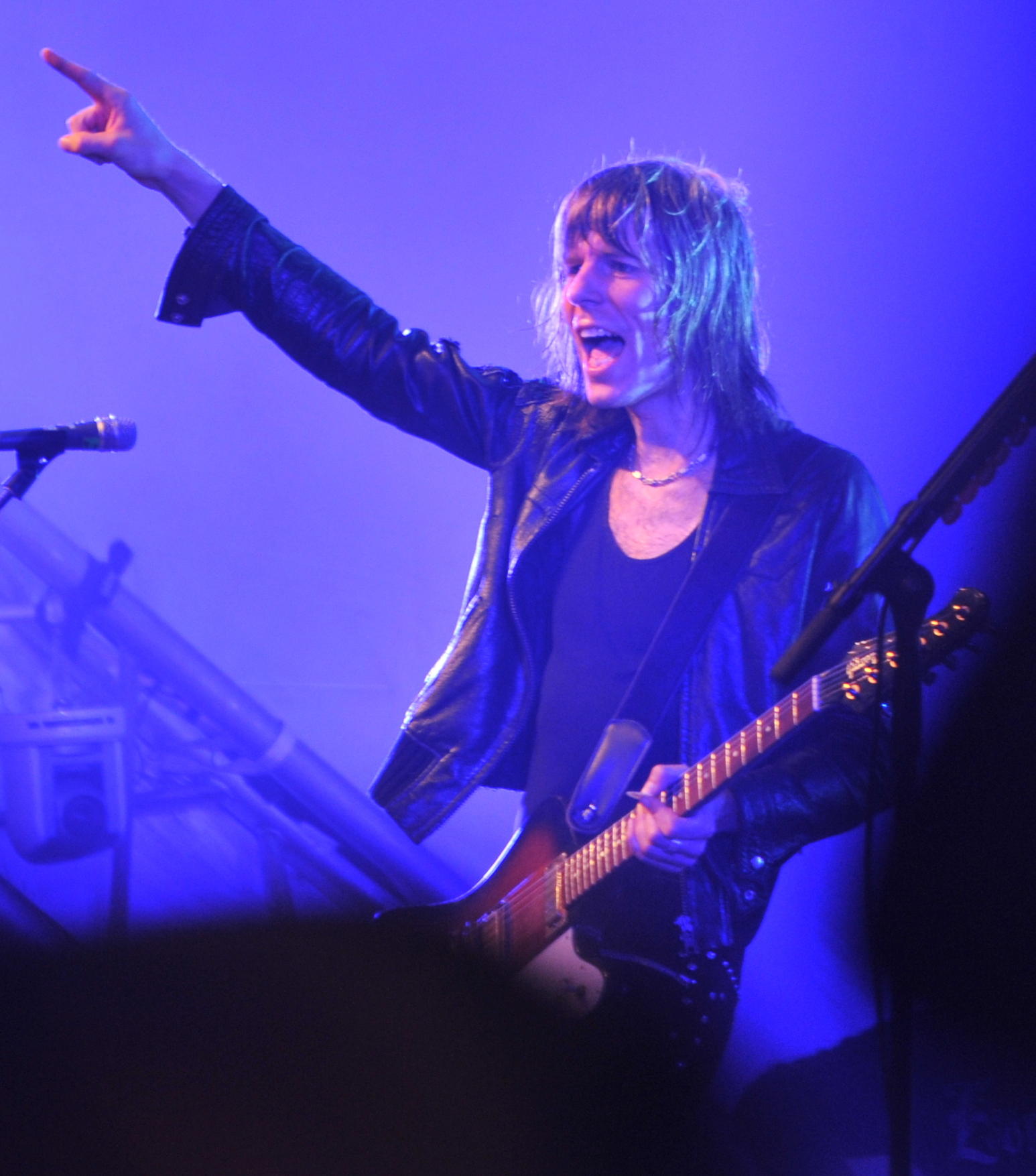 Swedish guitarist Martin Axén of The Ark.